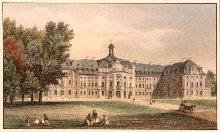 The Castle of Münster (Westphalia), Germany; historic steel engraving